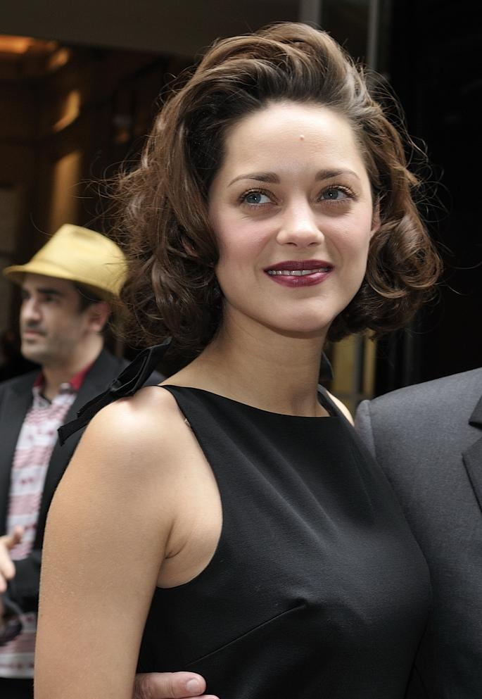 Actress Marion Cotillard at the 2009/2010 Haute Couture Autumn-Winter collection in Paris